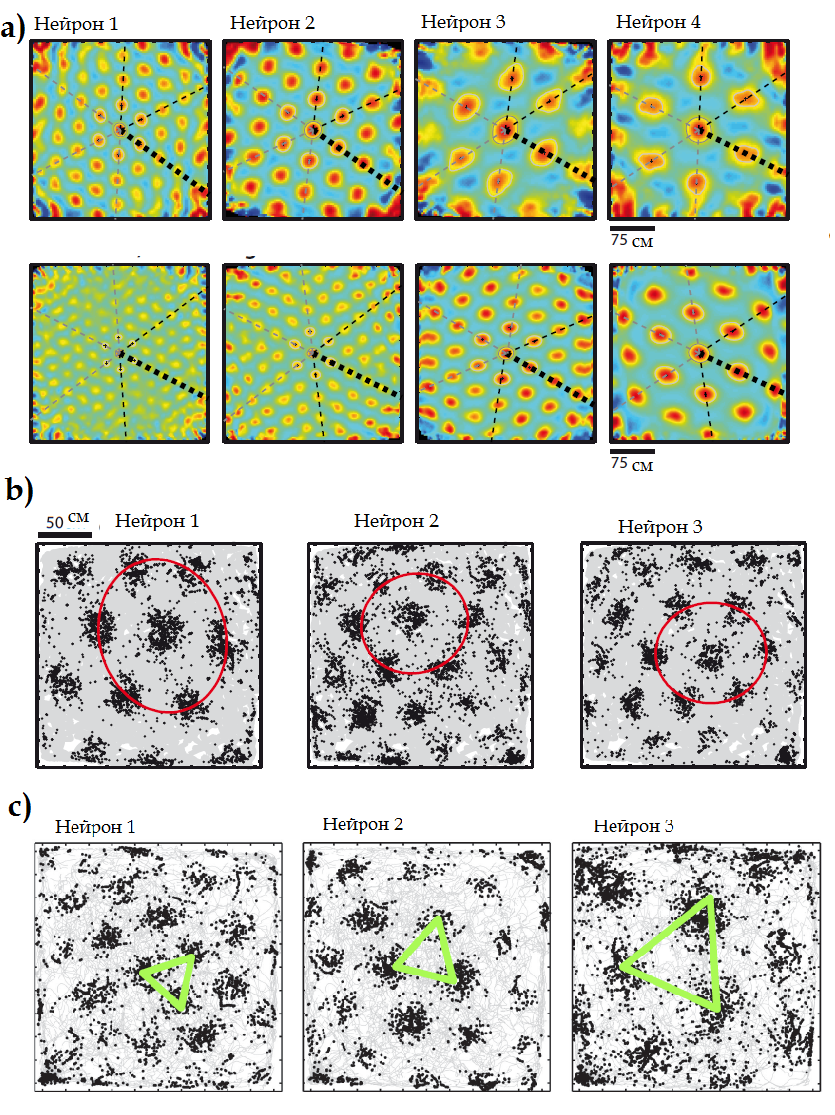 The entorhinal grid map is discretized